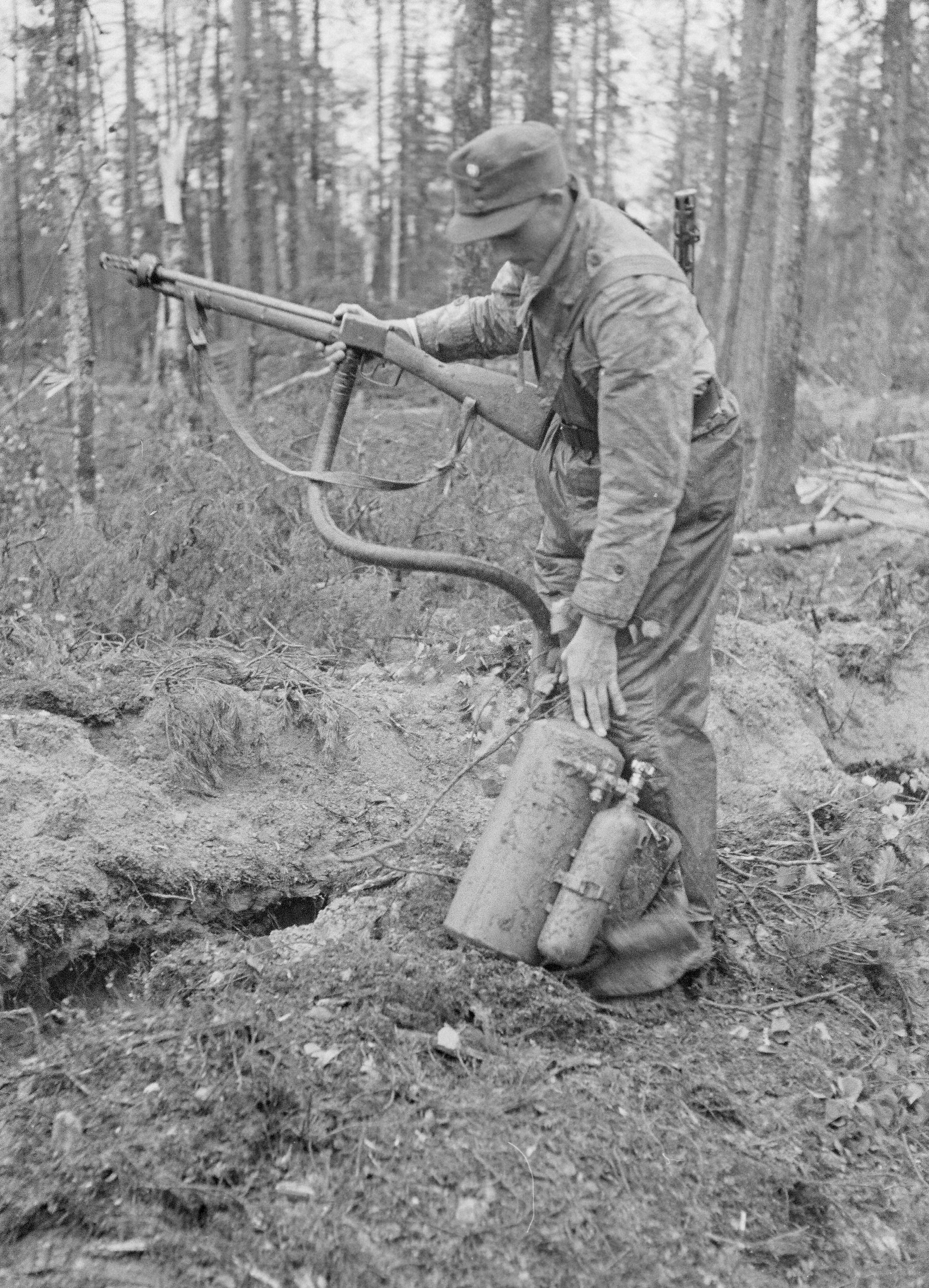 A captured Soviet ROKS-3flamethrower